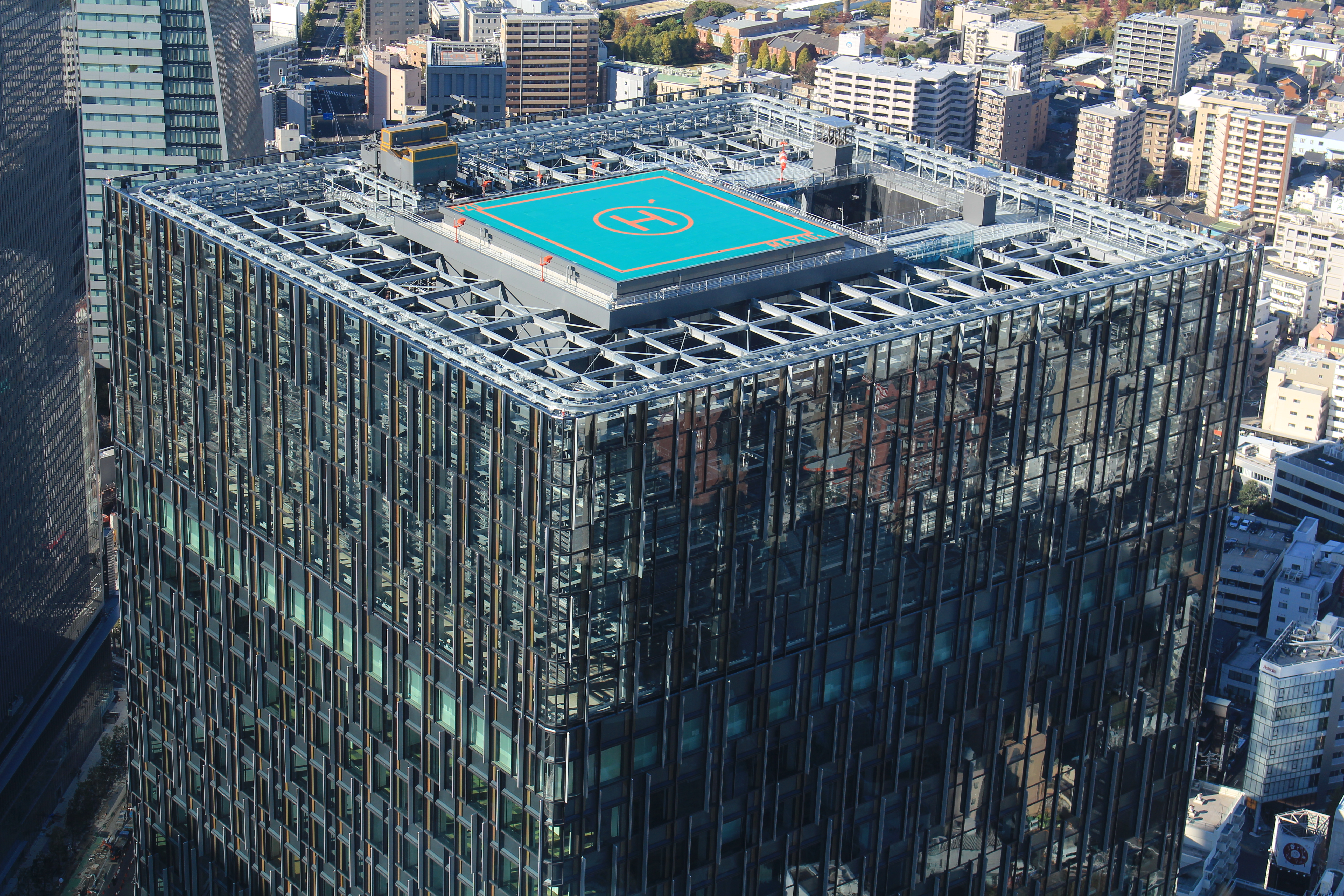 Heliport of Dai-Nagoya Building seen from Midland Square, in Meieki, Nakamura, Nagoya, Aichi prefecture, Japan.